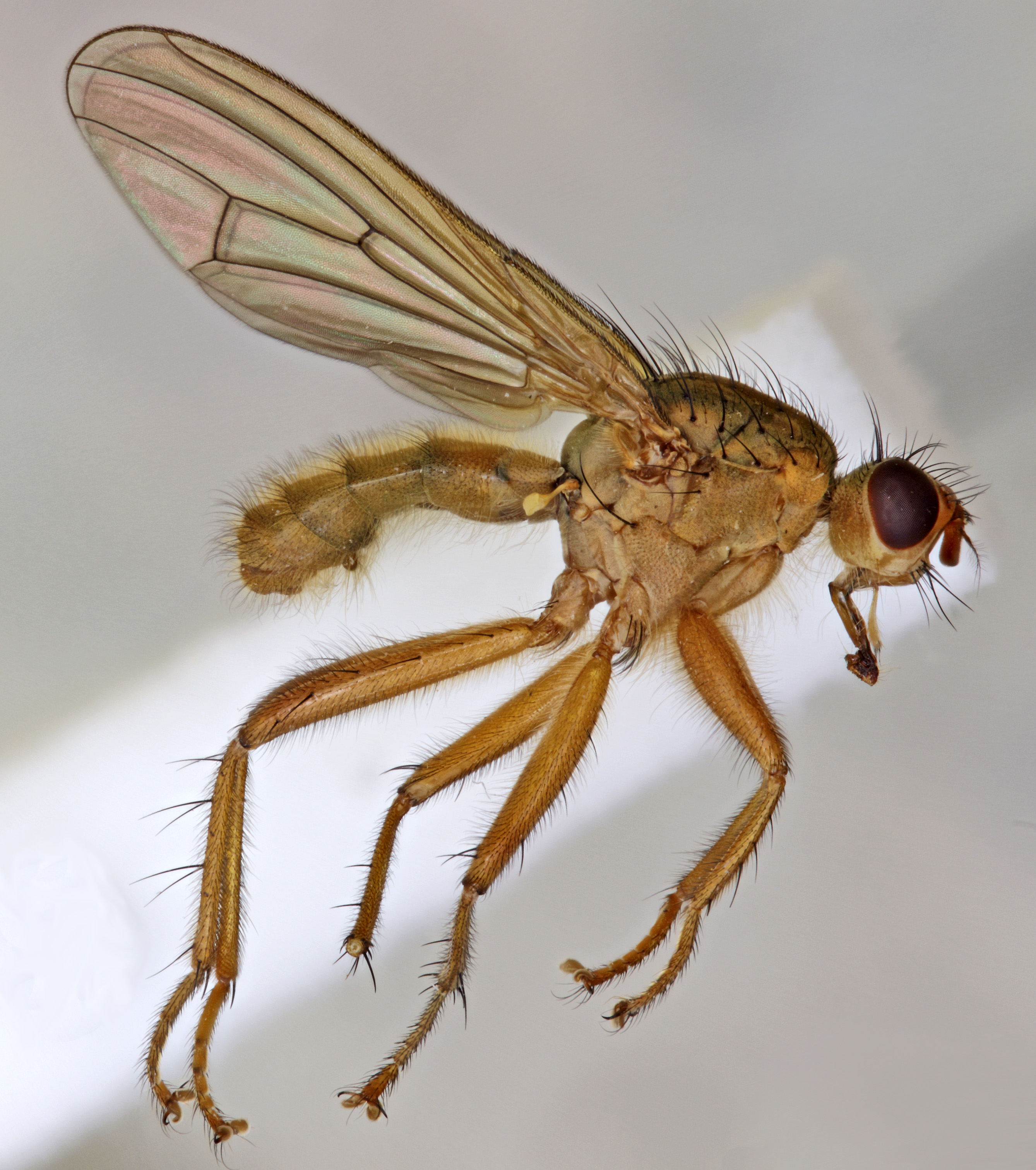 These have been frequent visitors to my garden this year. They were identified by Tony Irwin as Scathophaga lutaria despite not having the darkened femora associated with that species. Apparently, as with many Scathophaga, smaller specimens with colour characters poorly developed are not infrequent. Details for the record Species: Scathophaga lutaria Location: Ipswich (TM166450), East Suffolk VC25 Date: 25 Oct 2014